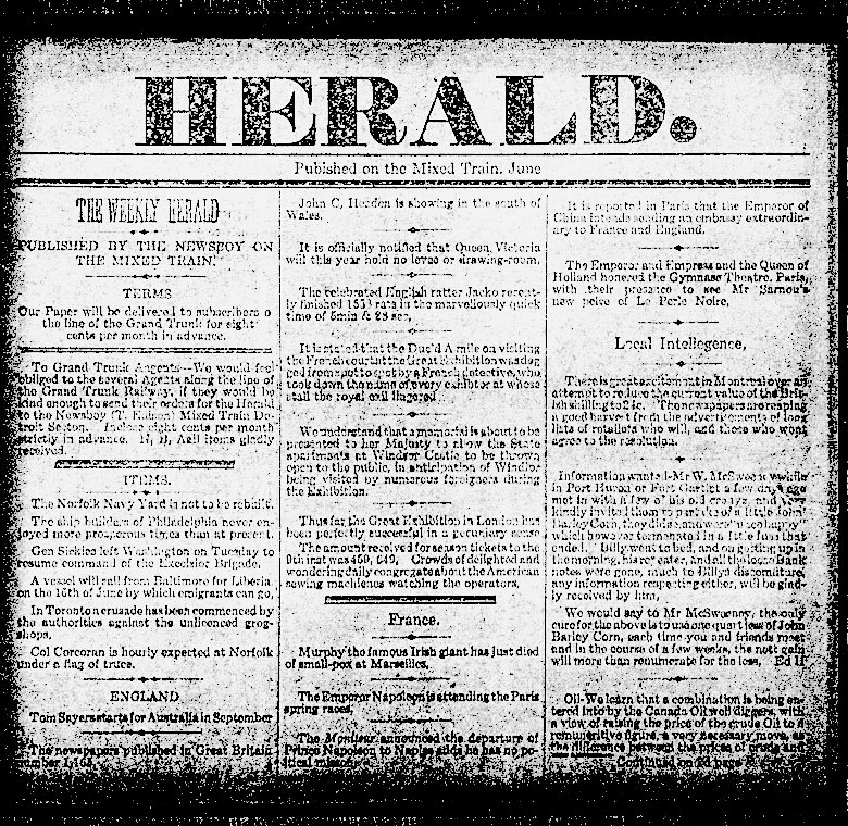 Herald newspaper, published by Thomas Edison for use aboard the Grand Trunk railway between Detroit and Port Huron, Michigan. Cropped and lightened by the uploader.